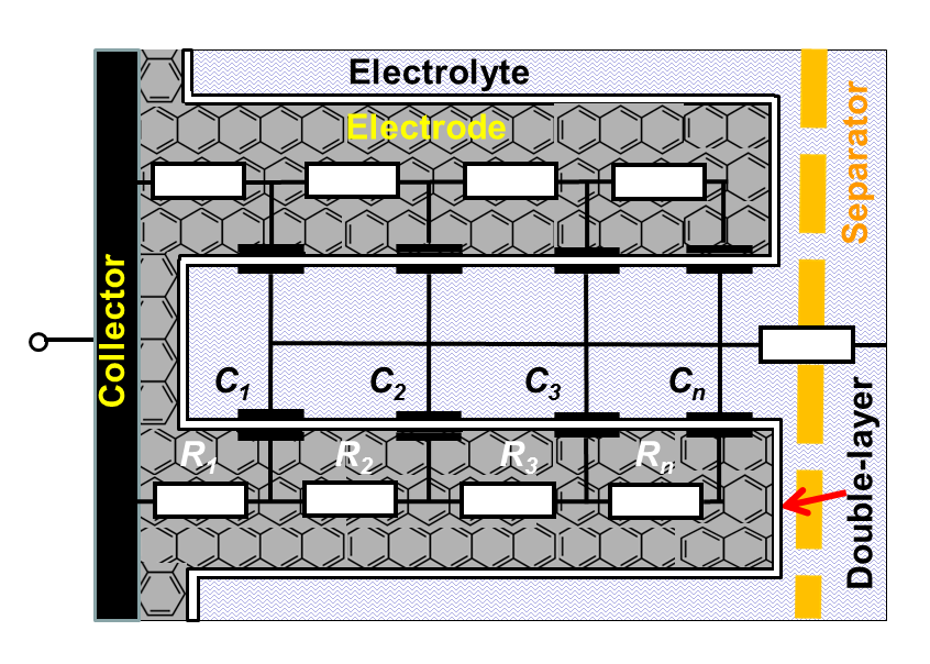 principle illustration of the electrical bahavior of a poros electrode of a supercapacitor